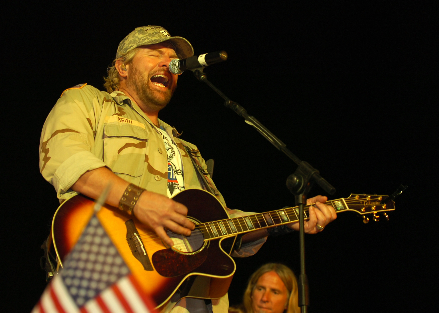 Toby Keith performs for service members at the Camp Liberty Post Exchange Stage, April 26, during his sixth United Services Organizations tour. “We like to come over here and say thank you to the troops,” Keith said. “We hope the music we bring takes everybody’s mind off of what they’re doing for a couple hours and lets them enjoy life the way free Americans are supposed to enjoy it.”